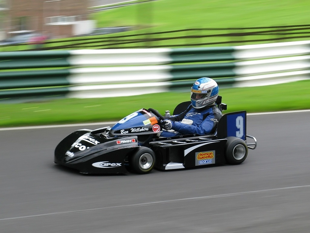 A UK 125 Open Superkart at Cadwell Park in GP.